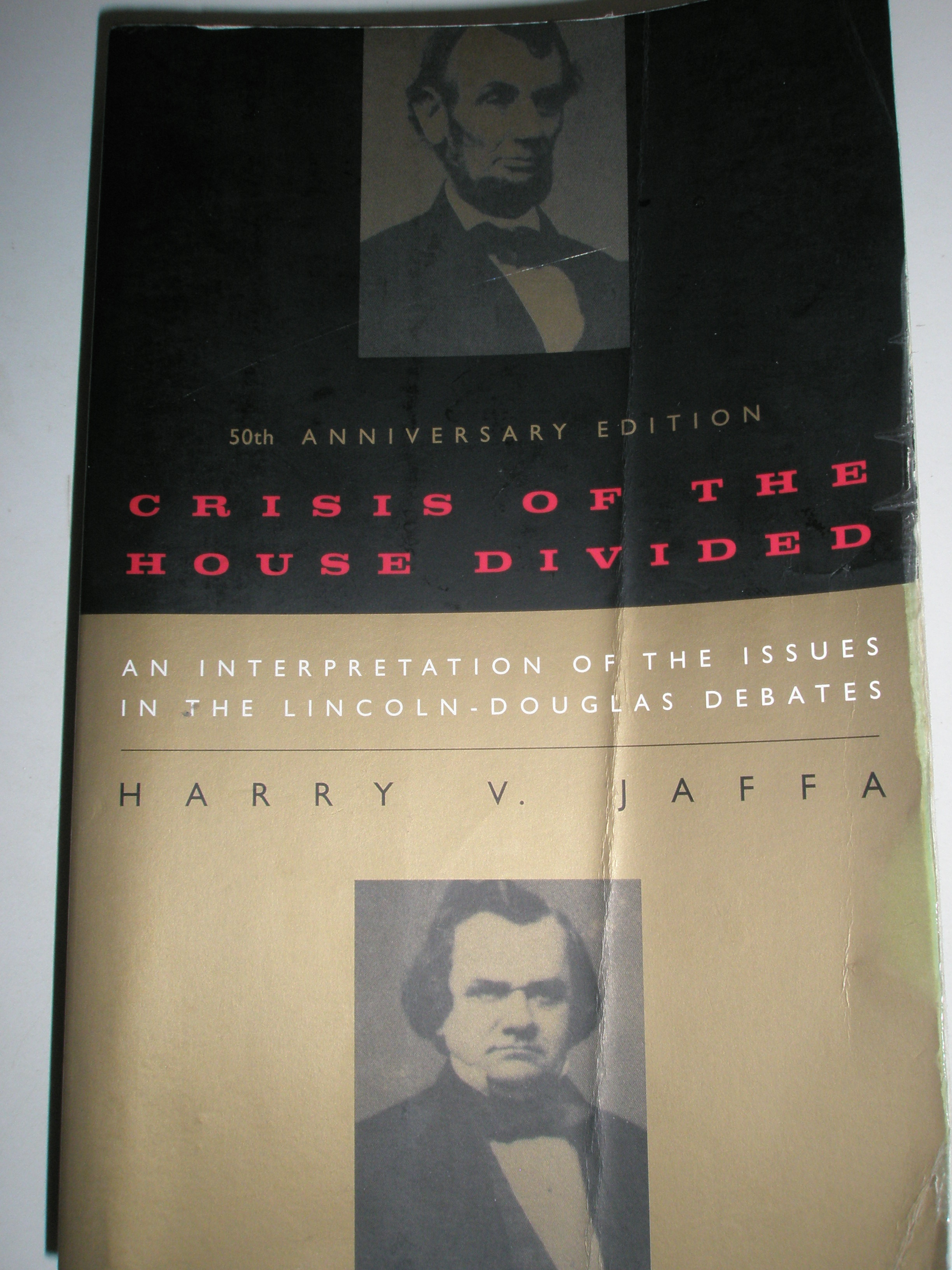 Book cover of Crisis of the House Divided